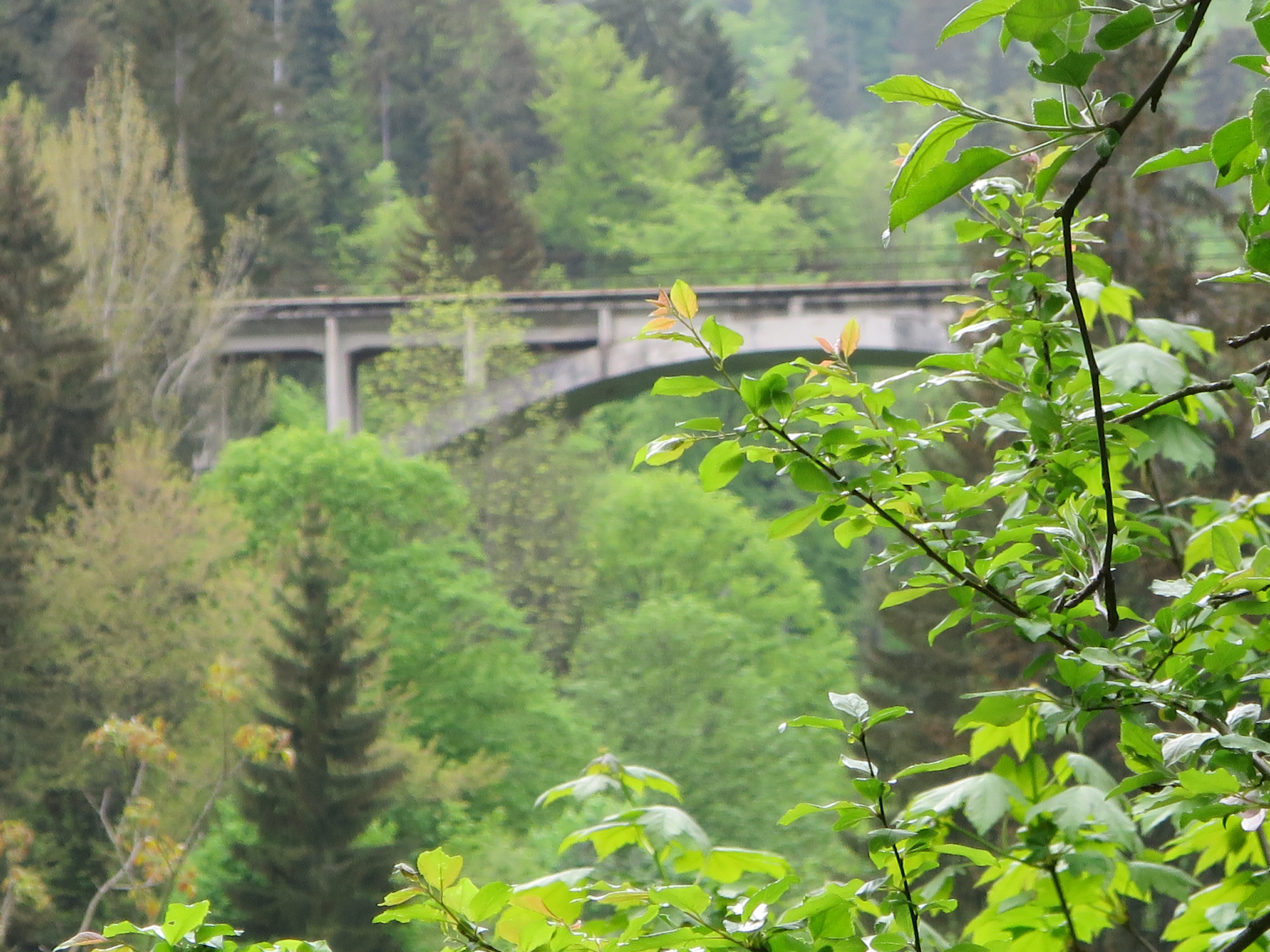 Uľanka viaduct